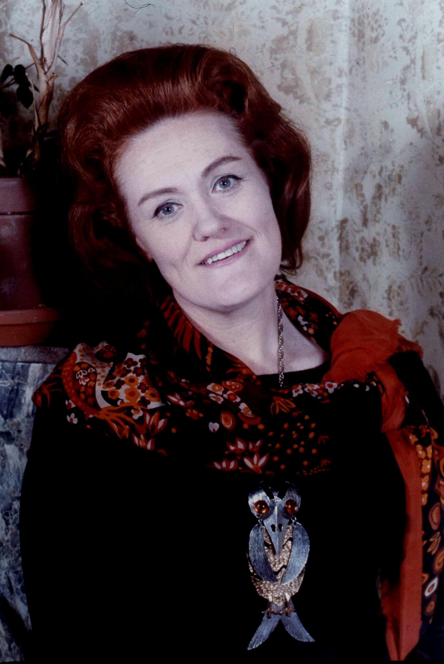 Portrait of Dame Joan Sutherland, taken in New York